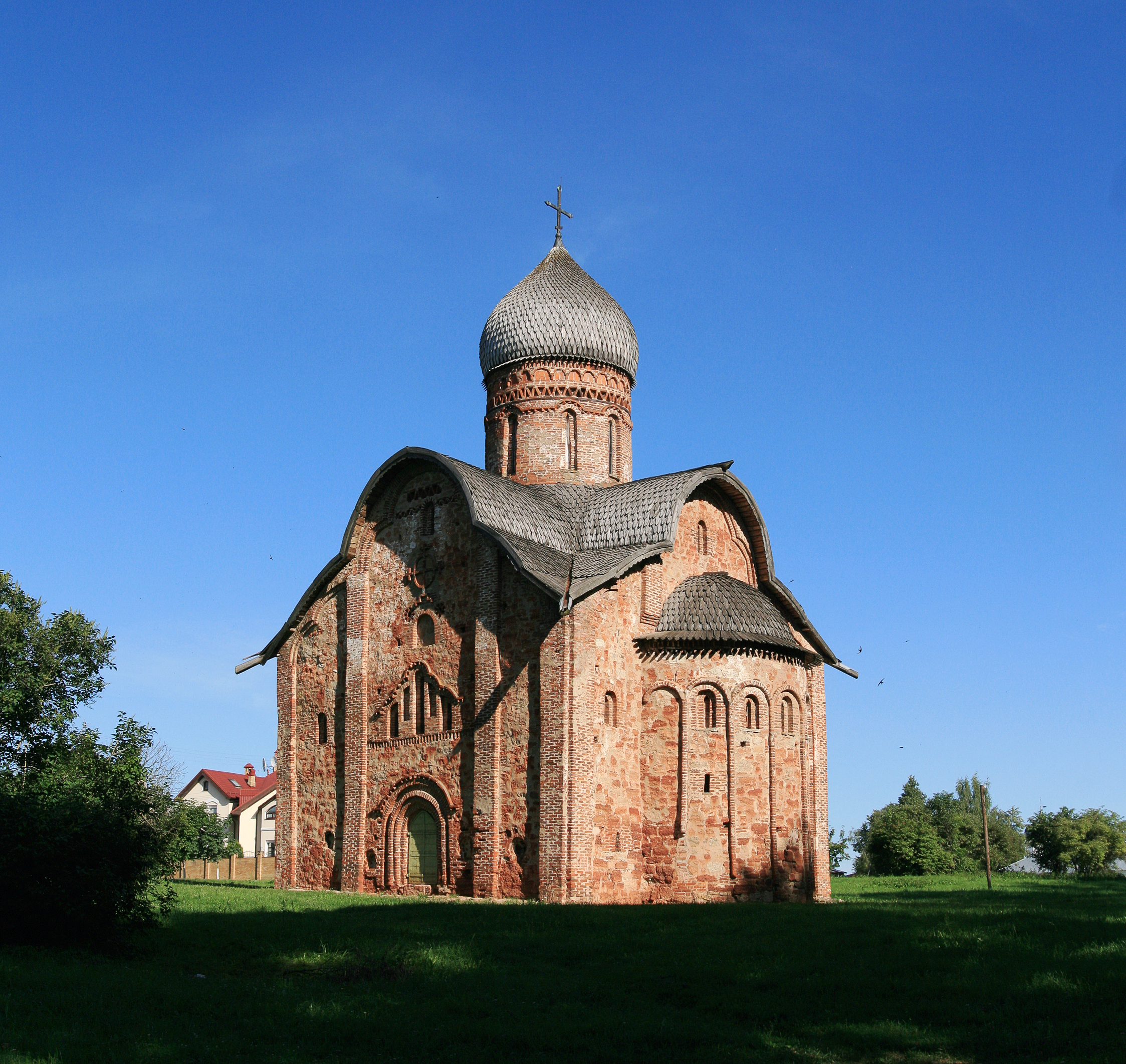 Church of Saints Peter and Paul in Kozhevniki, Veliky Novgorod